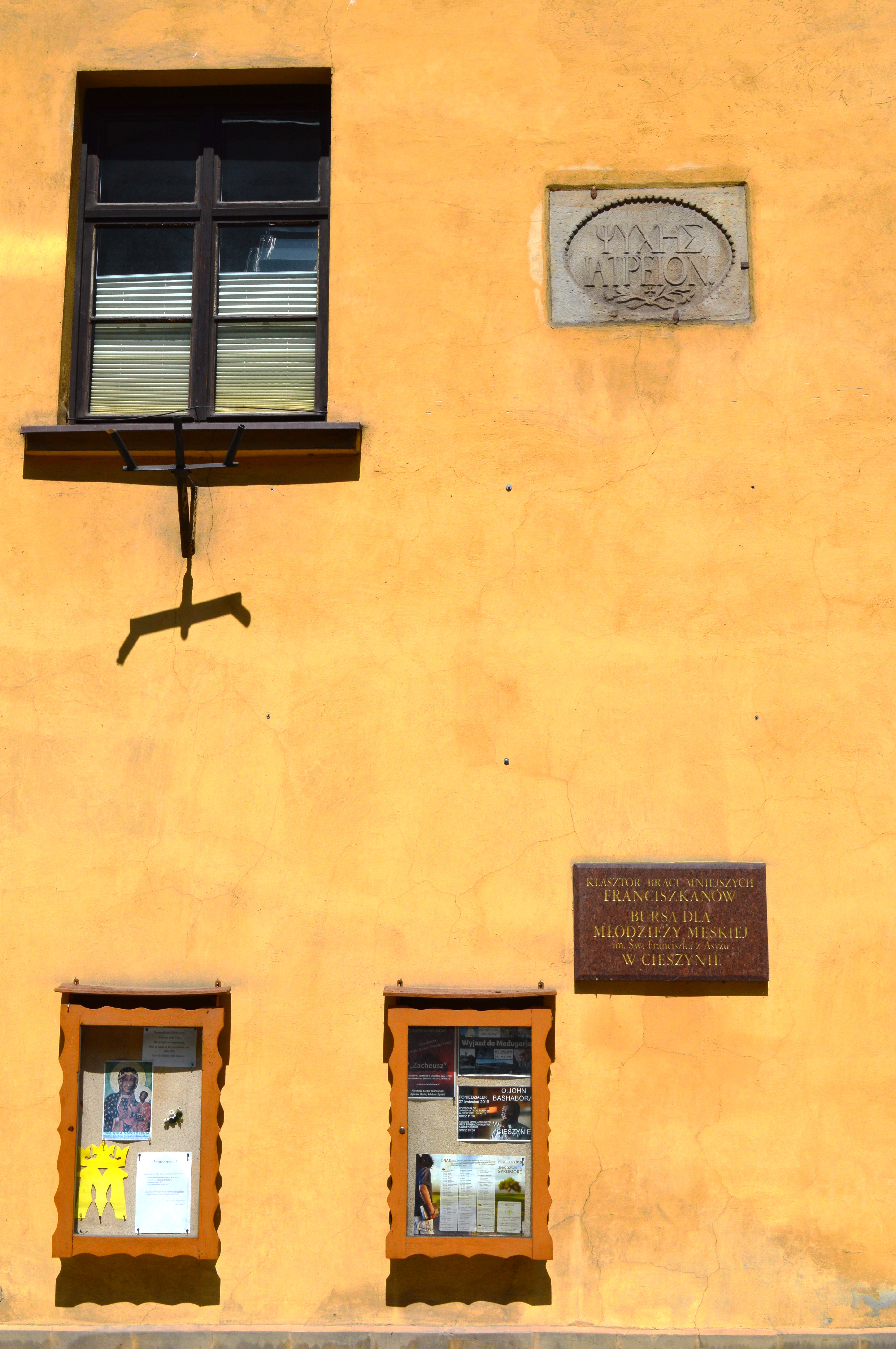 The Franciscan Monastery is adjacent to the Church of the Holy Cross in Cieszyn, located at the intersection of Szersznika and Szeroka Streets. The history of the church is connected with the arrival of the Jesuit Order in the city, in 1670. The Jesuits were given four houses and a chapel. The chapel was converted into a church in 1707. In 1773, the Jesuits were expelled from the Austrian empire. Currently, the church and monastery belongs to the Franciscans, who offer ministry to prisoners and the sick. They also look after the homeless.The Scotch Mist Gallery contains many photographs of historic buildings, monuments and memorials of Poland.